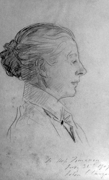 Beatrice Tomasson (25 April 1859 – 13 February 1947) was an English mountaineer